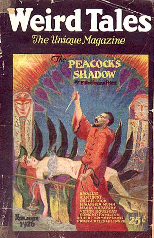 Cover of the pulp magazine Weird Tales (November 1926, vol. 8, no. 5) featuring The Peacock's Shadow by E. Hoffmann Price.